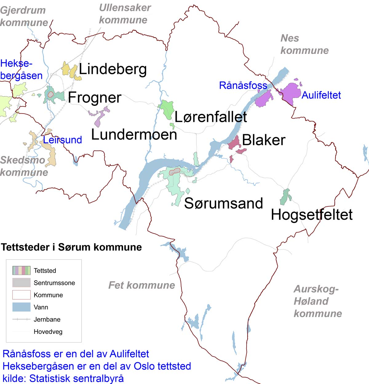 Map of the communities in Sørum